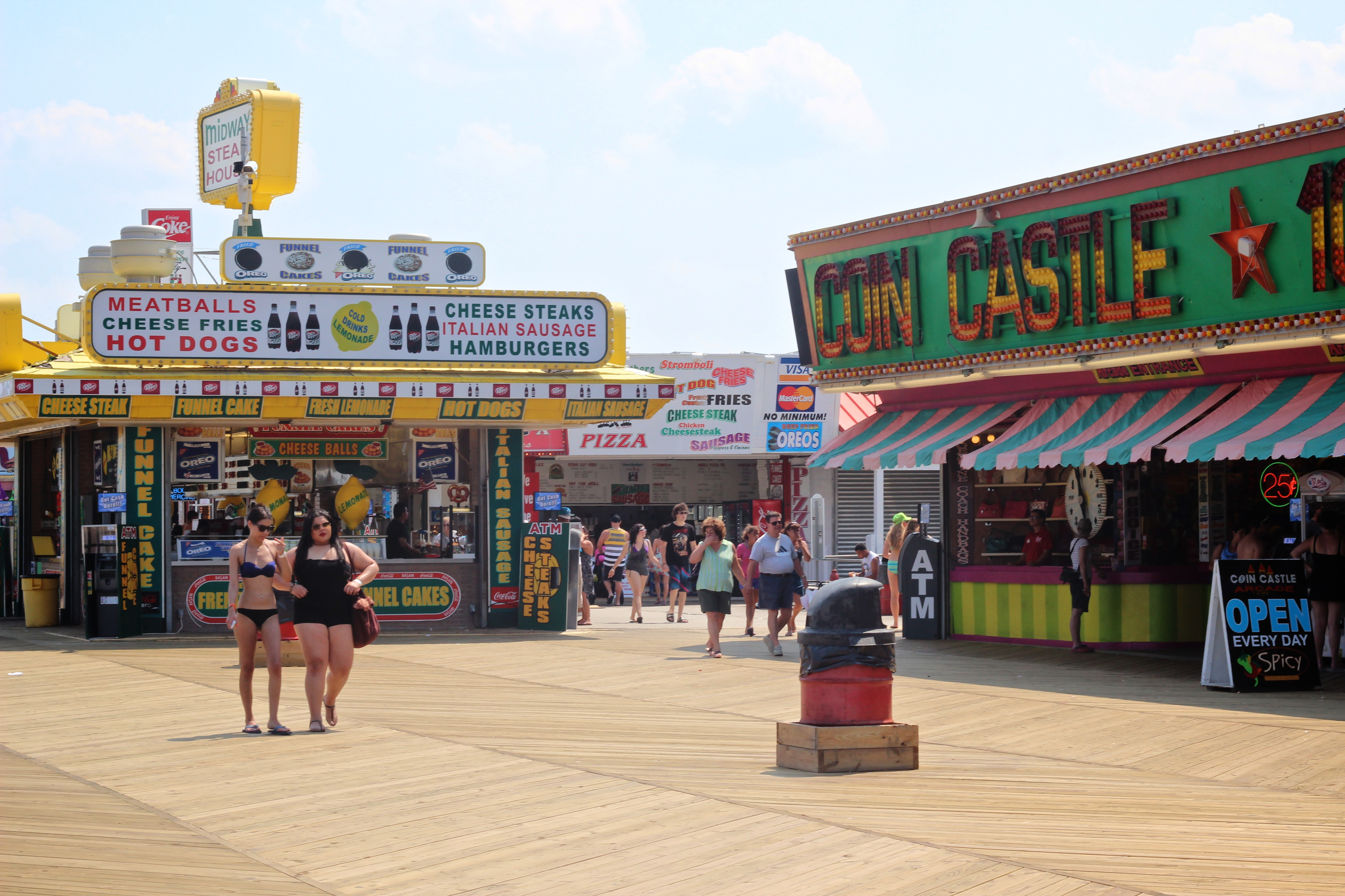 Seaside Heights, New Jersey